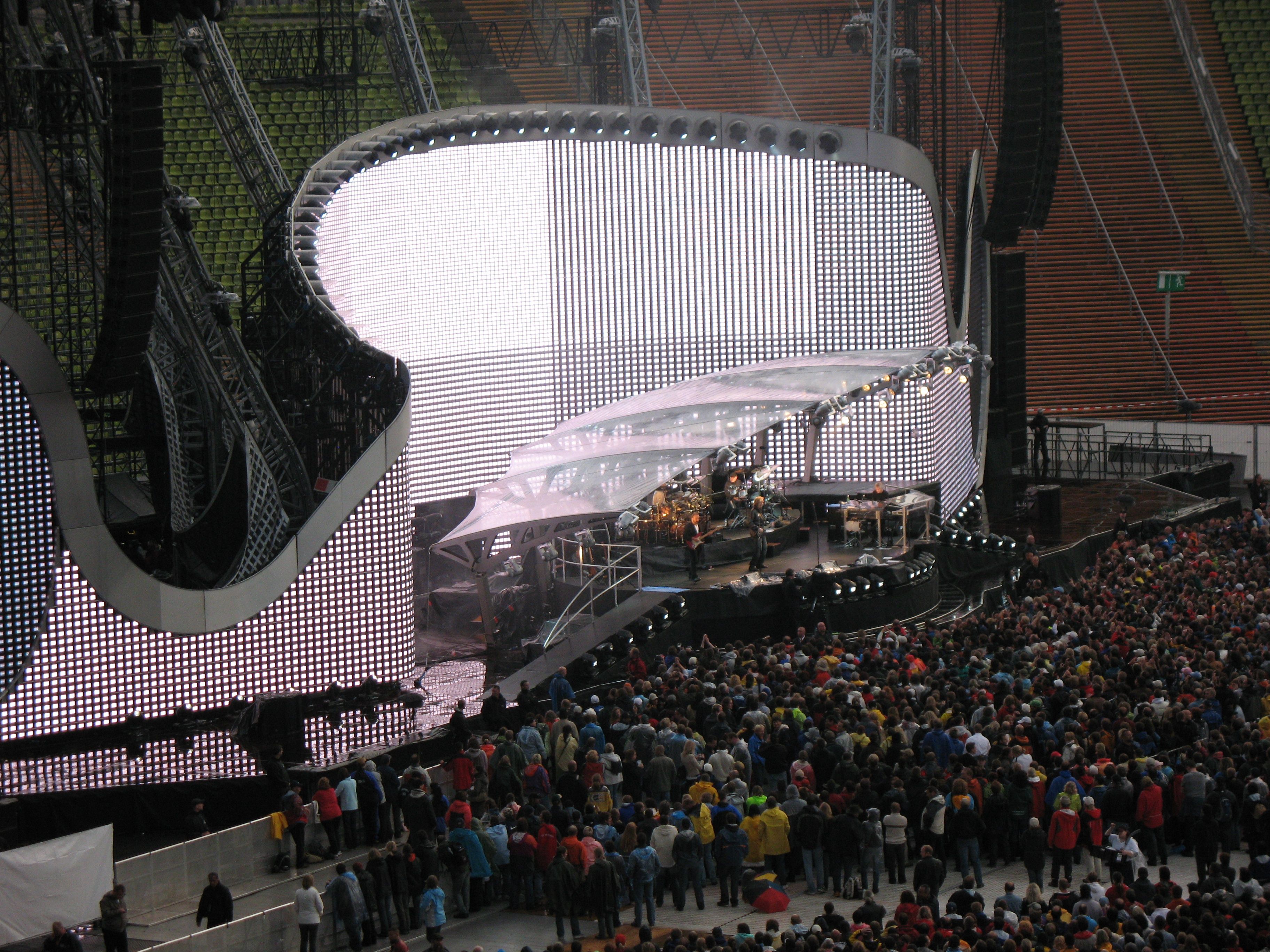 Genesis performing "Behind the Lines" at the Olympic Stadium, Munich, Germany